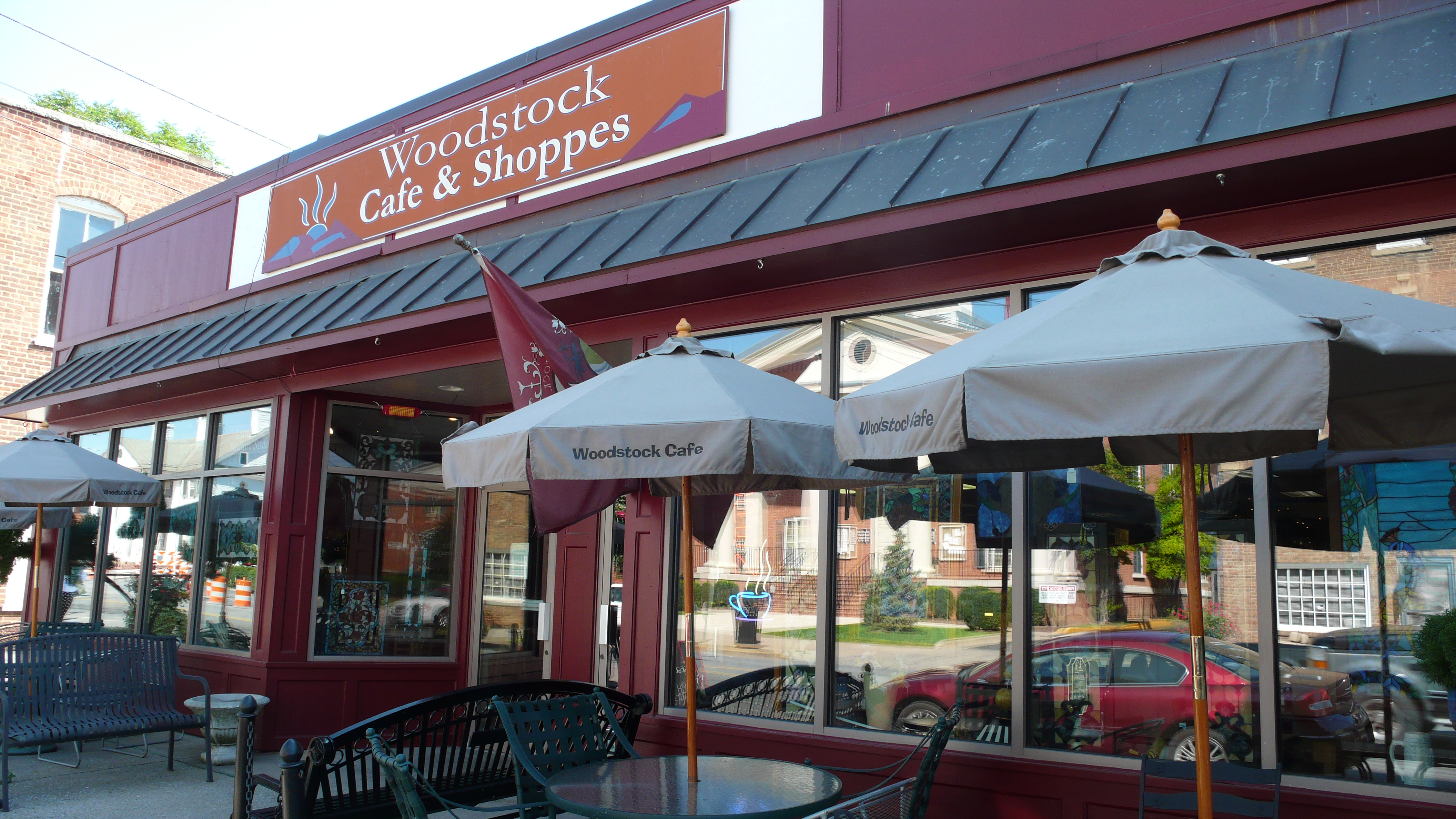 The Woodstock Cafe and Shoppes, typical of downtown Woodstock, Virginia.